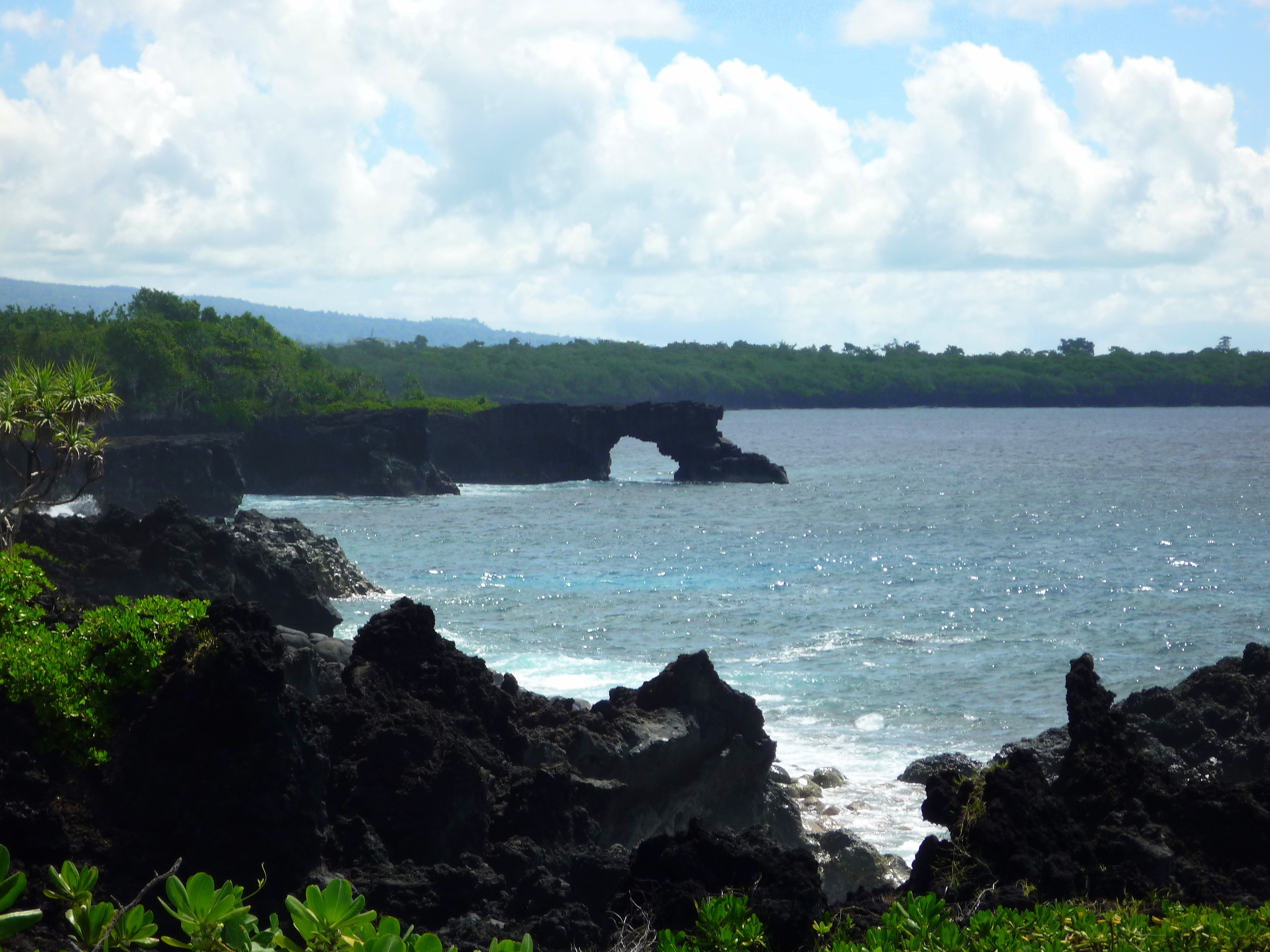 South east coast of Savai'i island in Palauli district, Samoa.